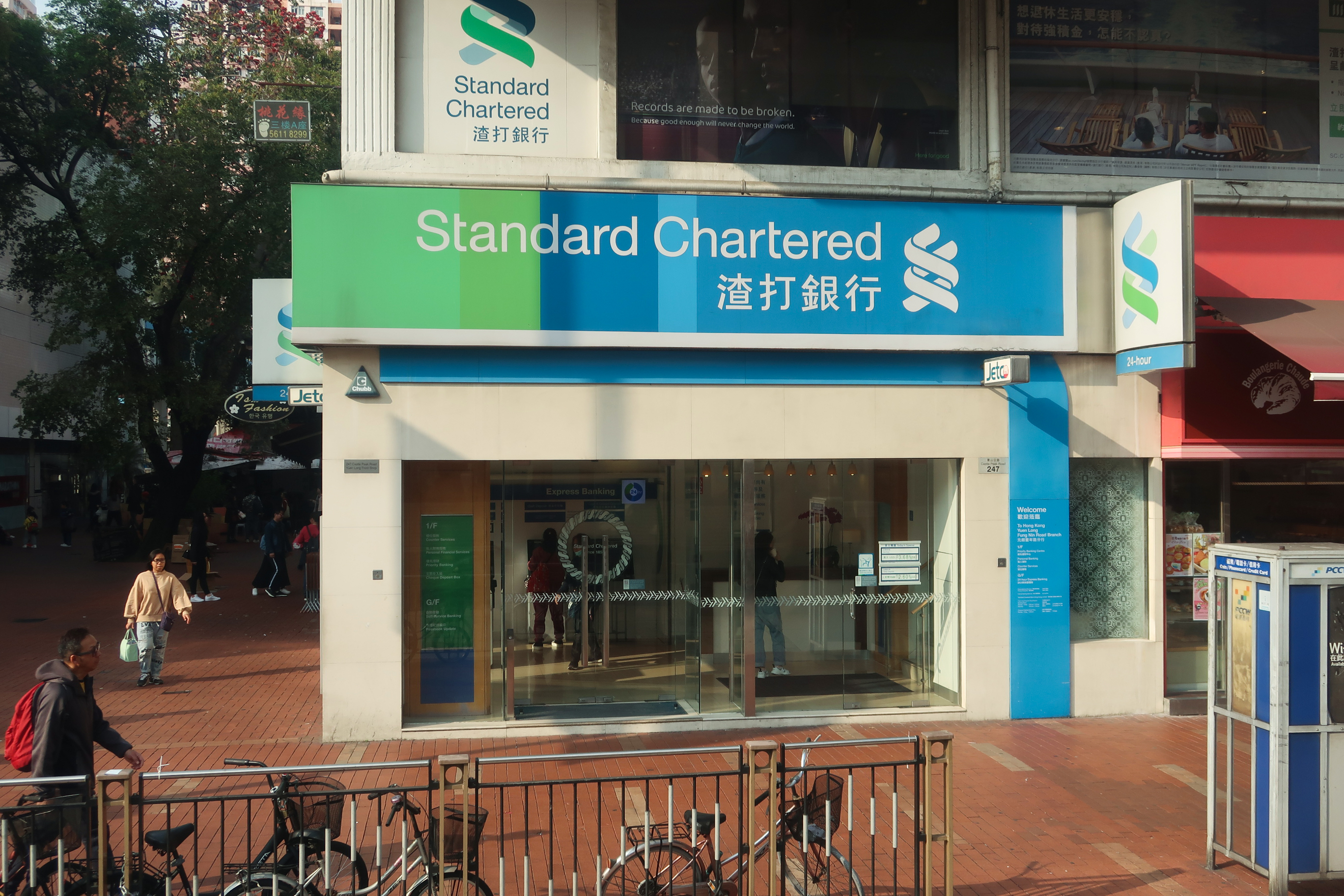 Standard Charted Bank in Yuen Long